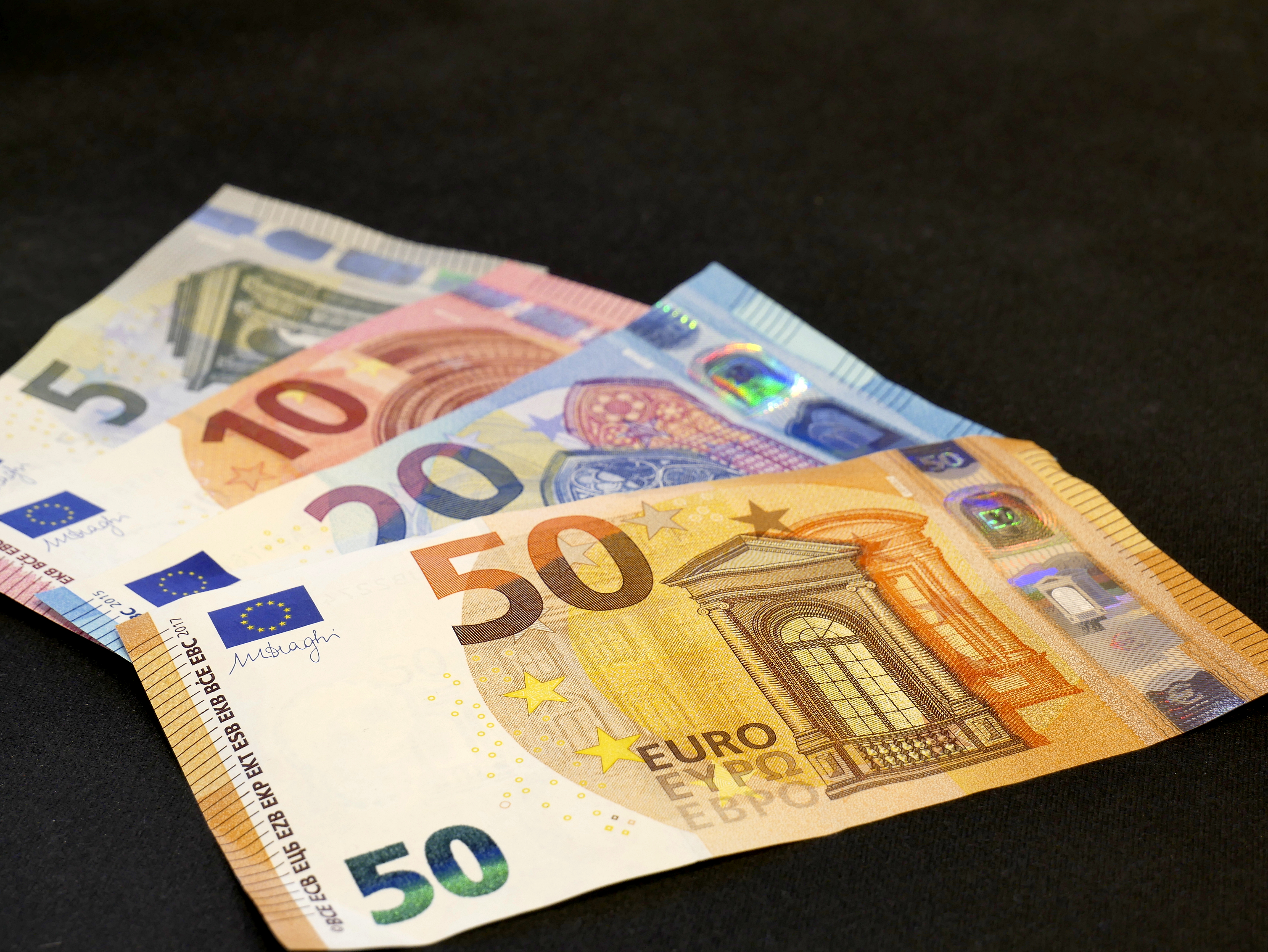 Second serie 5, 10, 20, 50 Euro banknotes.